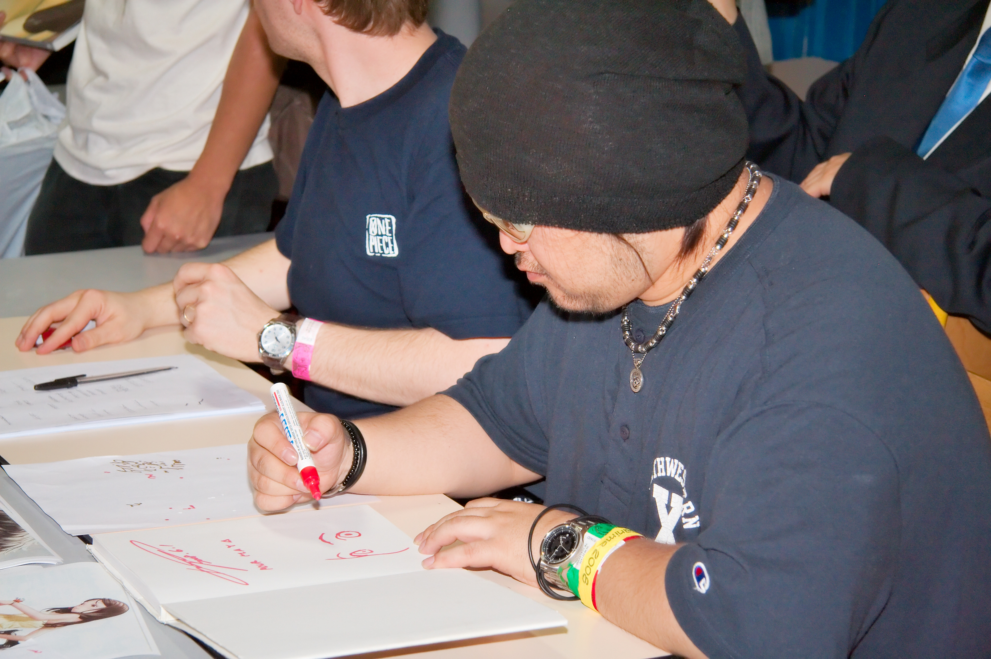 Autograph session with Range Murata at Epitanime 2008 (Paris, France).